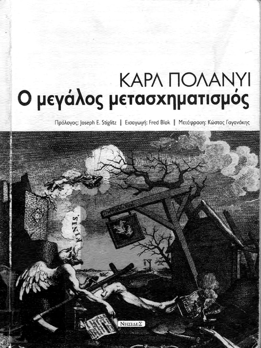 The Great Transformation by Karl Polanyi book cover. The layout includes William Hogarth's Tailpiece, or The Bathos (1764)